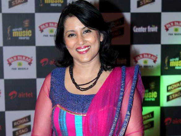 Madhushree at Mirchi Music Awards 2012